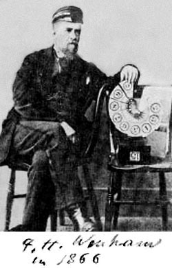 1866 portrait of Francis Herbert Wenham, a British engineer and aviation pioneer credited with designing, building and testing the first wind tunnel in 1871.